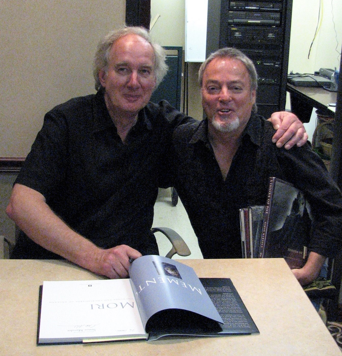 Simon Marsden & Mark Edward at book signing in 2009